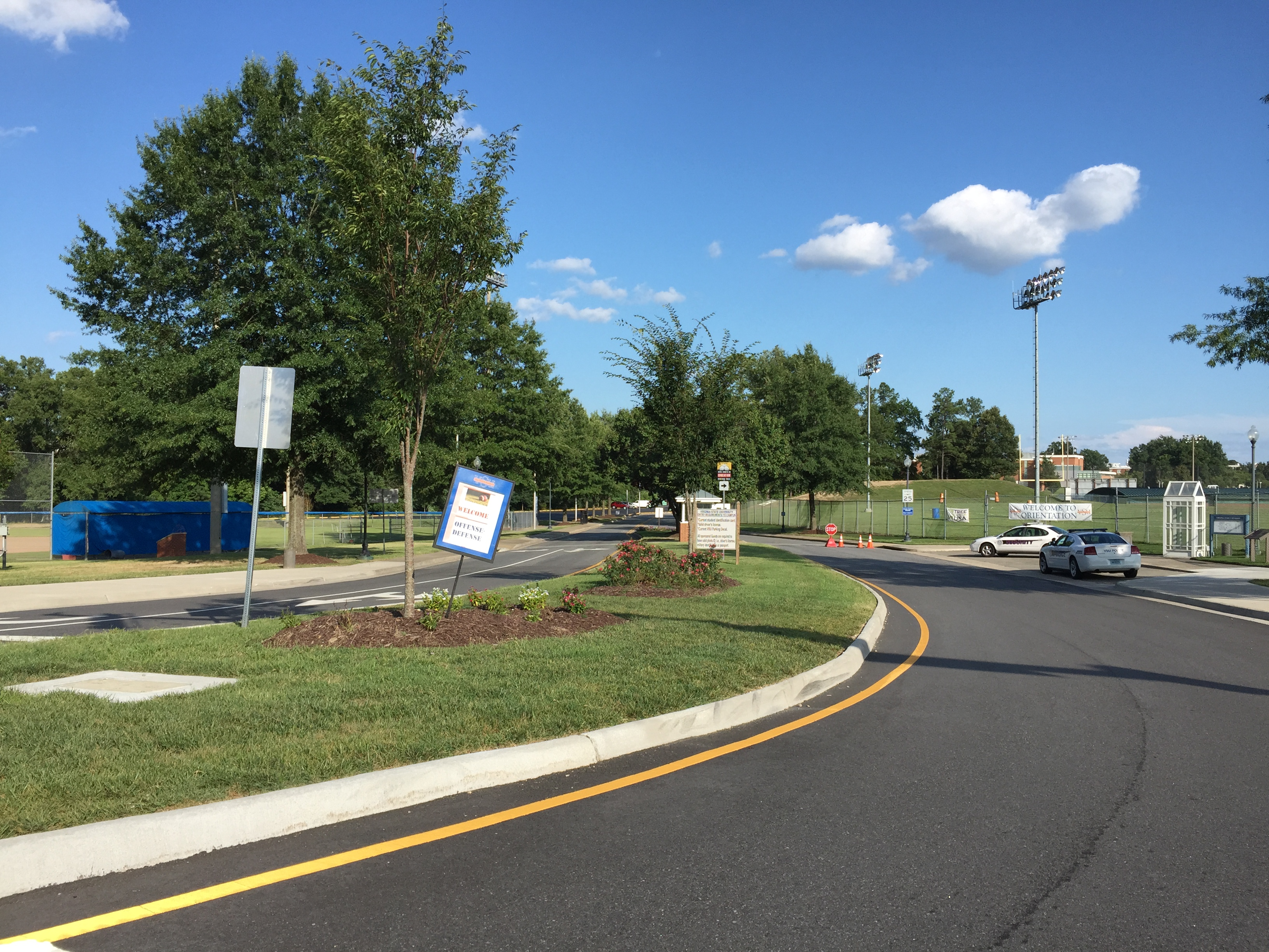 View south along Virginia State Route 327 (Matthews Jefferson Drive) at East River Road (Virginia State Secondary Route 1107) at Virginia State University in Ettrick, Chesterfield County, Virginia